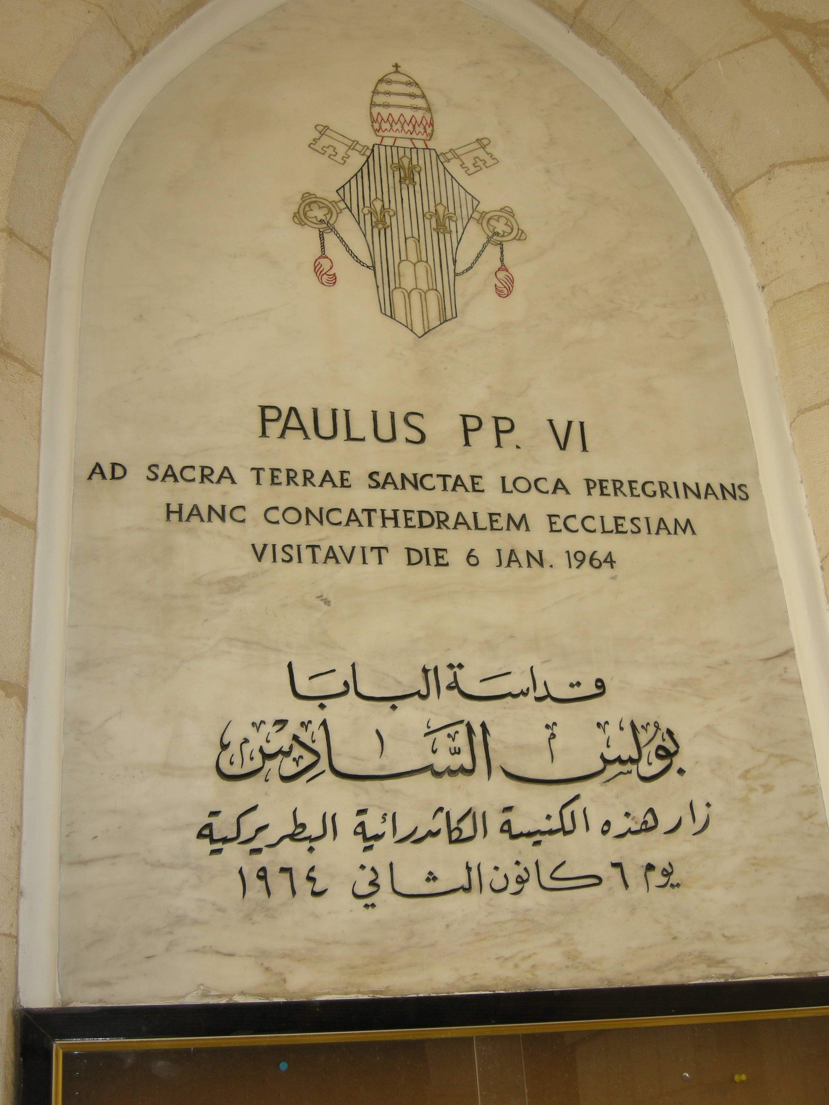 Visit in the Concathedral of the Latin Patriarch of Jerusalem, plaque commemorating the visit of Pope Paul VI on 6 January 1964.